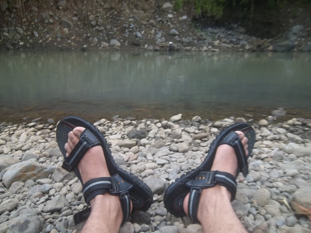 Hiking sandals in a riverside of Bogor